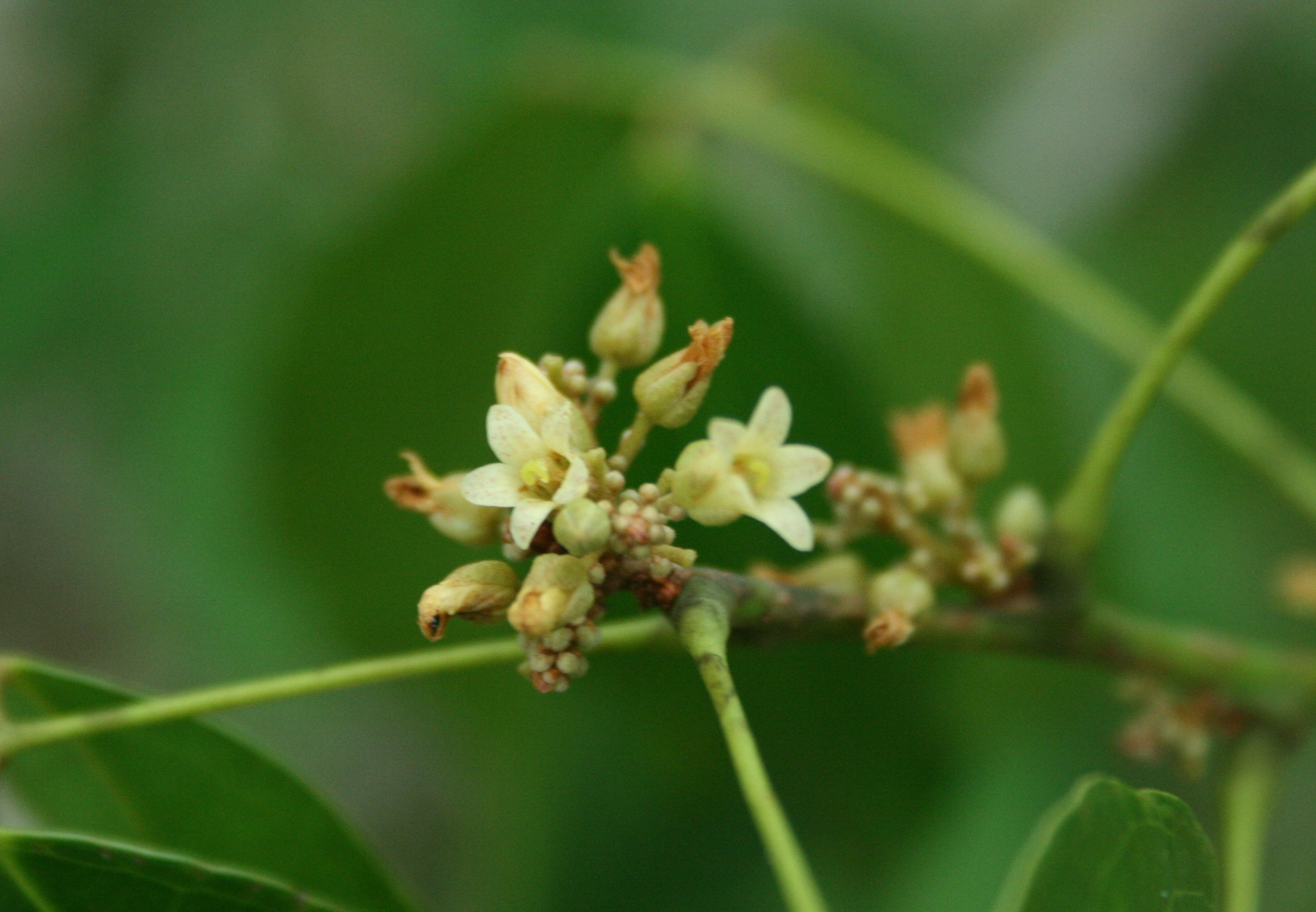 Flowers of Connarus lambertii, Rio Caura, Venezuela